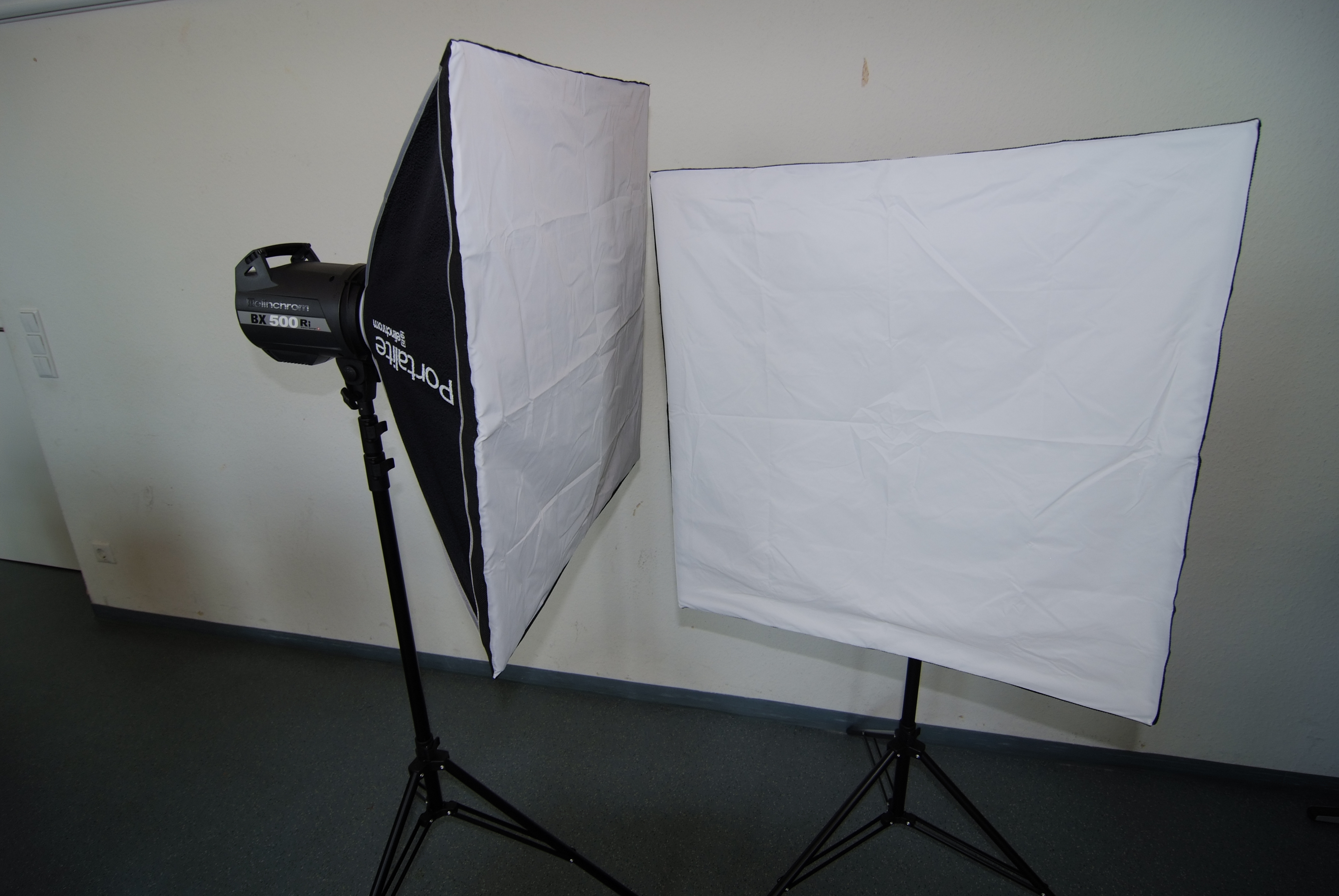 transportable Studio-Blitzanlage (elinchrom BX 500 Ri)